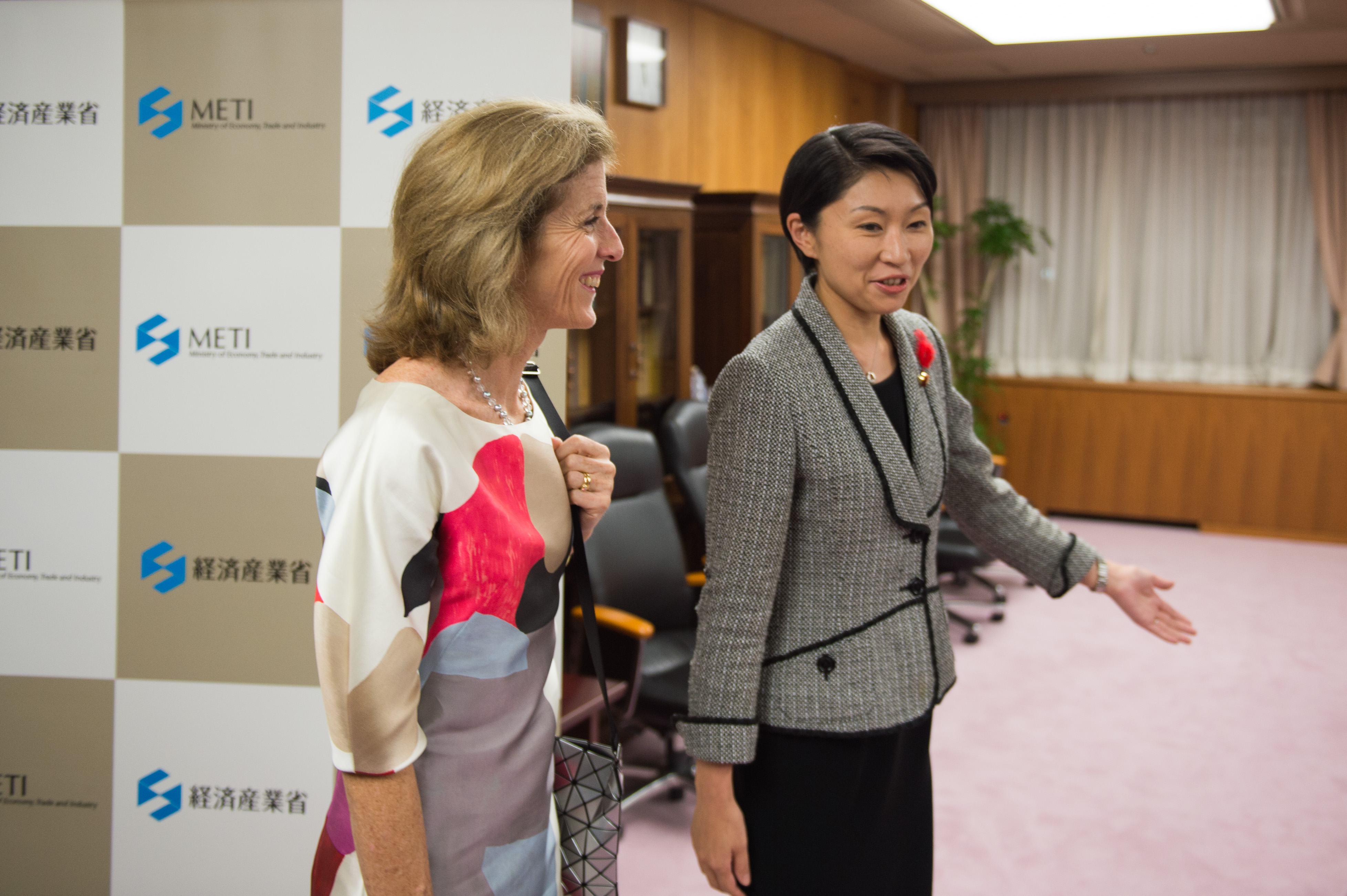 Caroline Kennedy, Ambassador to Japan, met Yūko Obuchi, Minister of Economy, Trade and Industry, at the Ministry of Economy, Trade and Industry in Chiyoda Ward, Tōkyō Metropolis on October 14, 2014.